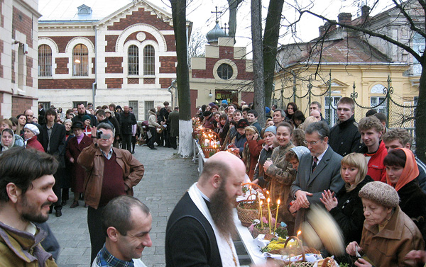 Russian Orthodox Easter ceremony in Lvov (Ukraine)